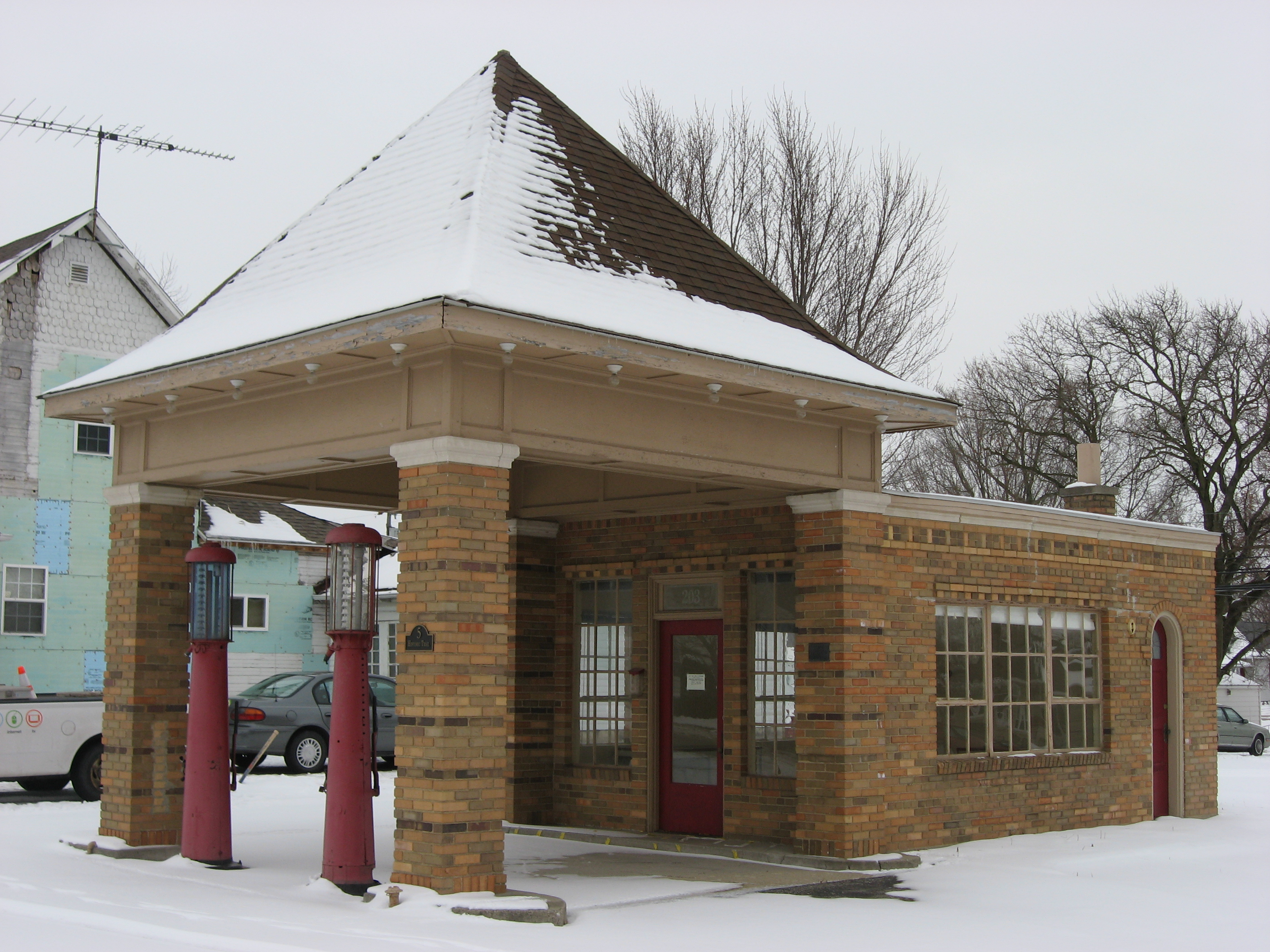 Front and western side of the Hy-Red Gasoline Station, located at 203 E. Main Street (U.S. Route 35) in downtown Greentown, Indiana, United States. Built in 1930, it is listed on the National Register of Historic Places.